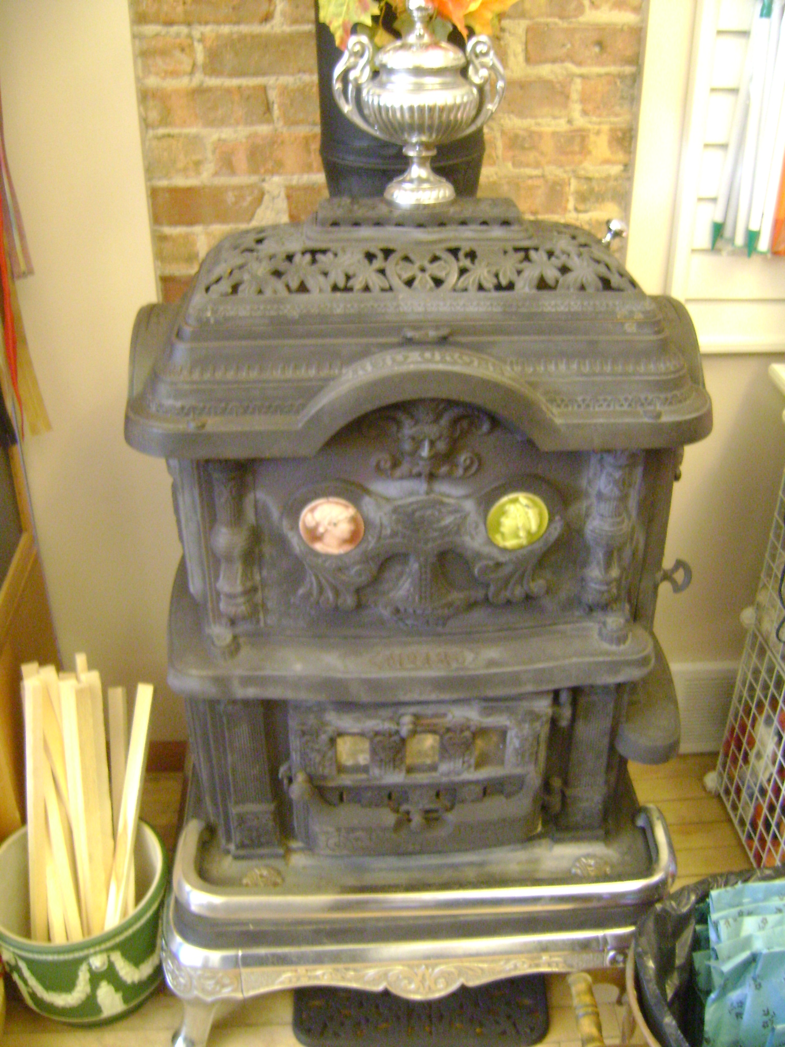 Red Cross heating stove manufactured by defunct company Co-Operative Foundry Company that was located in Rochester NY.